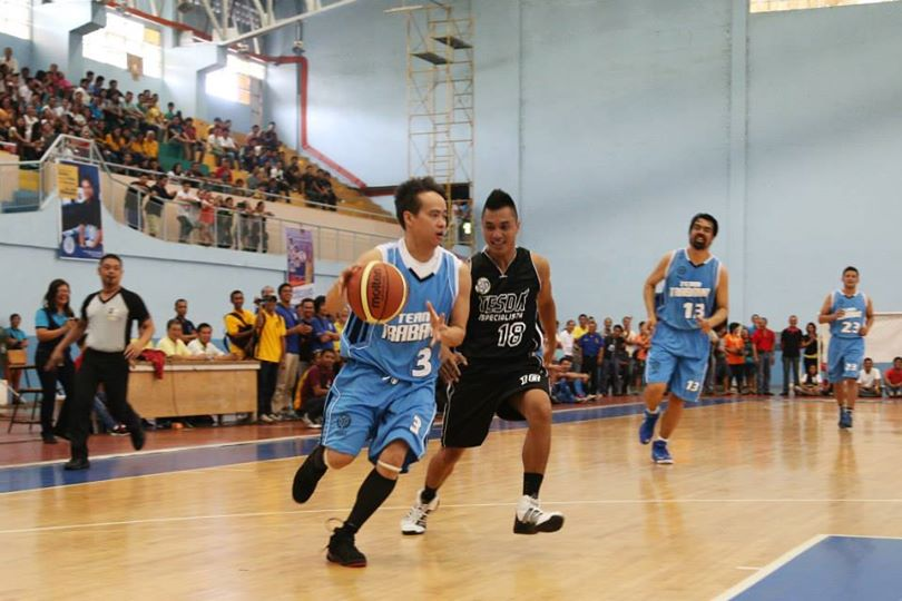 Joel Villanueva playing for "Team Tesda" in an exhibition game by the Technical Education and Skills Development Authority (TESDA) dedicated to out-of-school-youths.